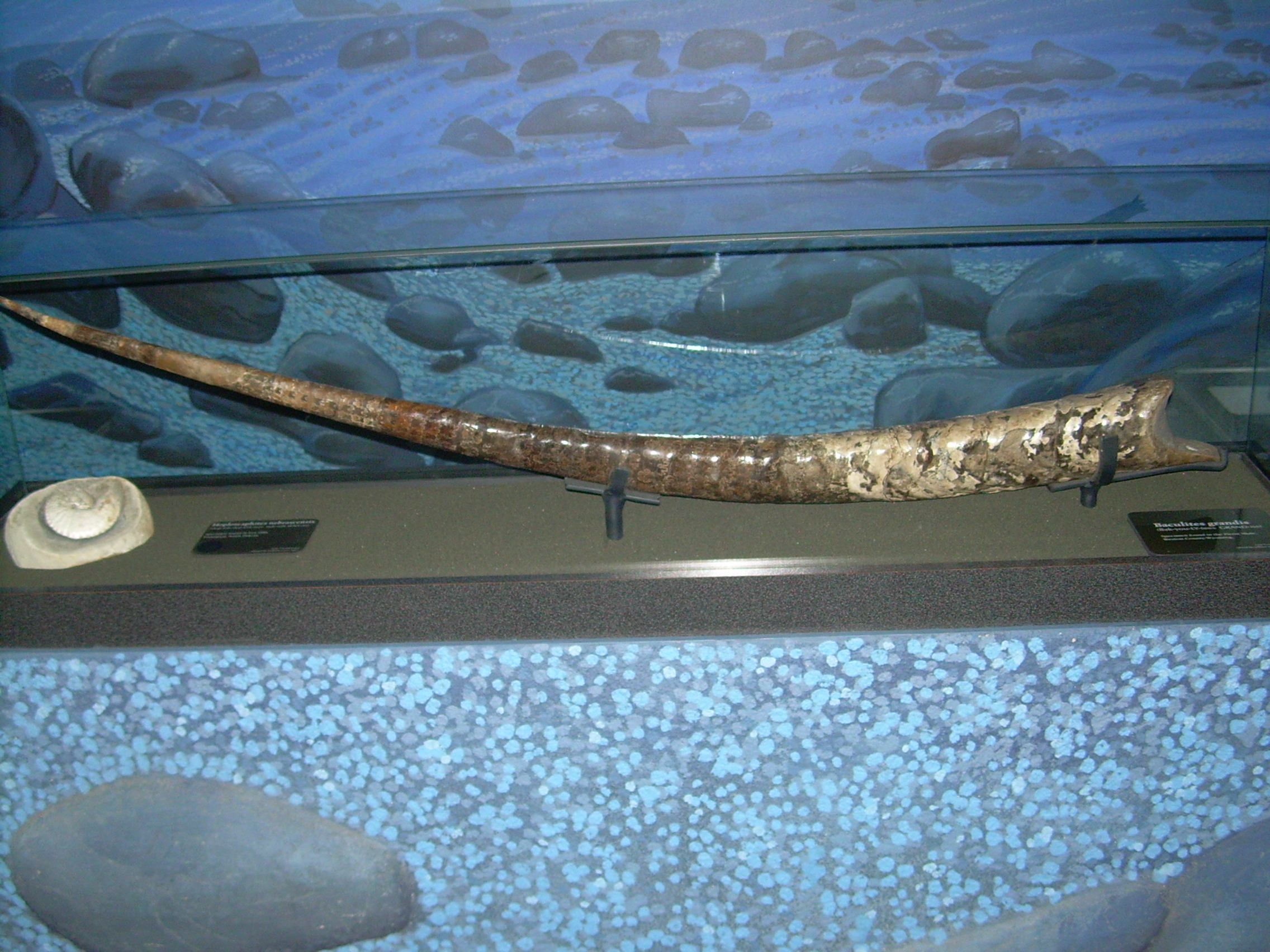 Photograph of a fossil cast of a Baculites shell taken at the North American Museum of Ancient Life.